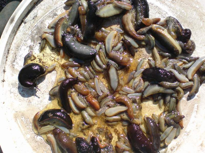 Tray of Slugs killed by beer traps in a Garden. The photo shows various Arion species.